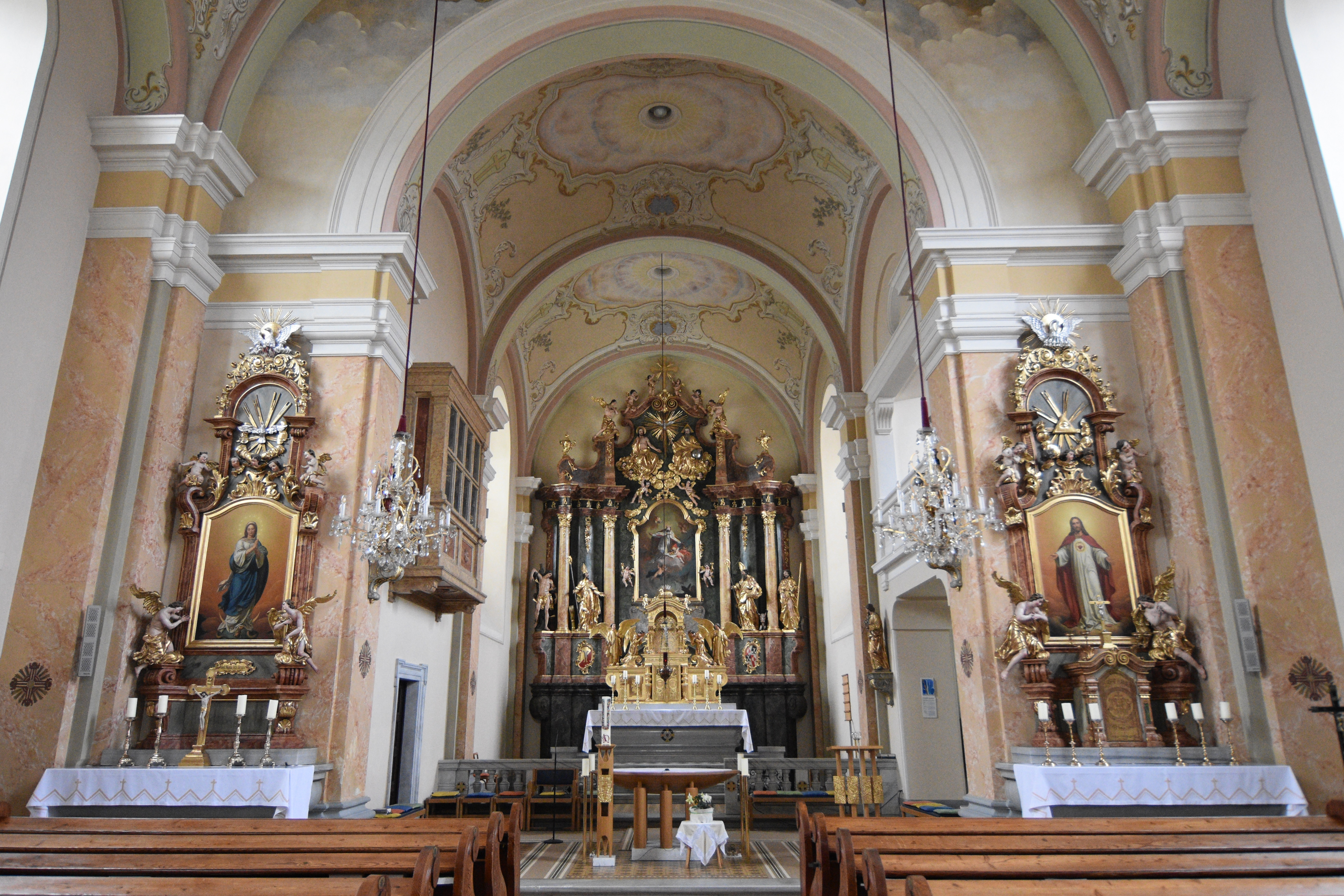 Church hl. Nikolaus (Wundschuh) - Interior